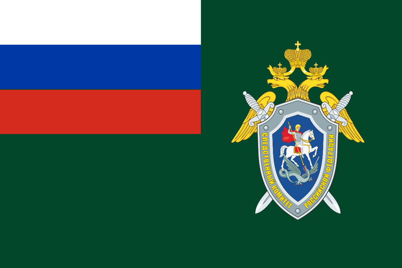 Flag of Investigative Committee of Russia